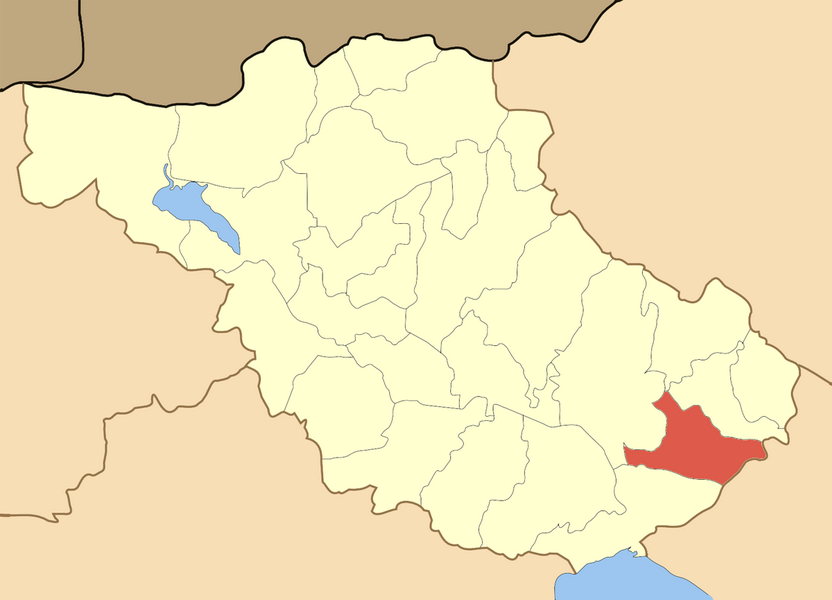 Locator map of Rodolivos municipality in Serres perfecture in Greece.